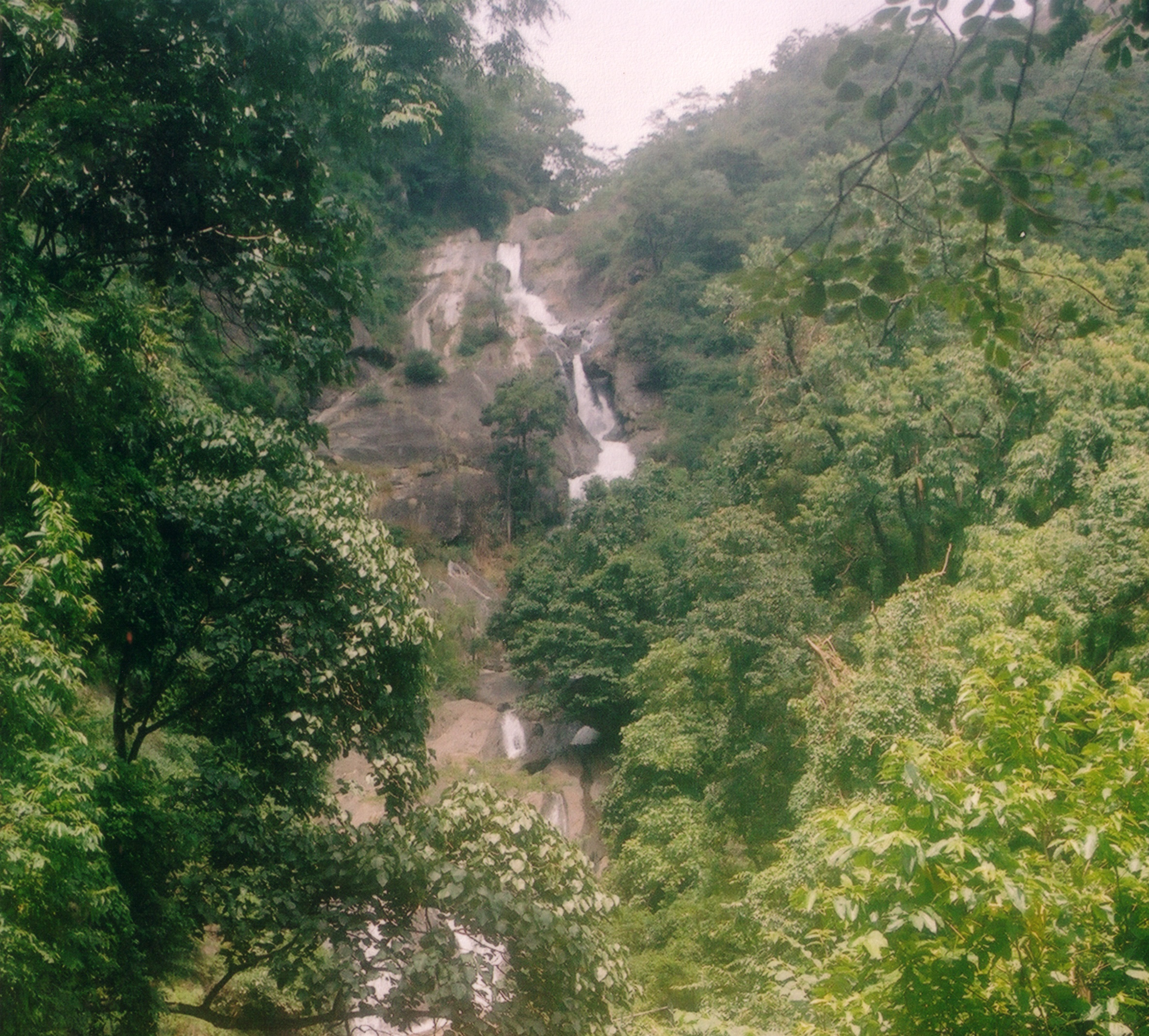 Siruvani Falls view from path to the falls. This waterfall is located near Coimbatore, Tamil Nadu, India.